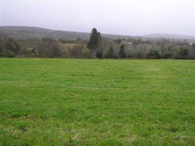 Gorteennaglough Townland Looking south from Church Road